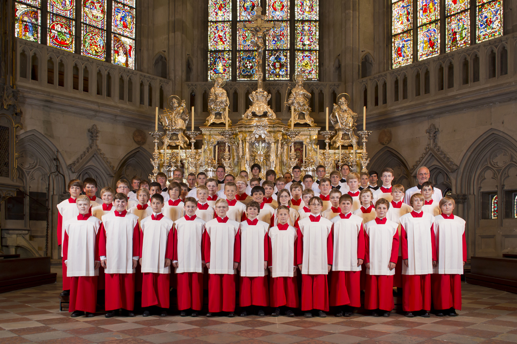 The Regensburg Cathedral Choir every Sunday, make the Cathedral of St. Peter worship music.